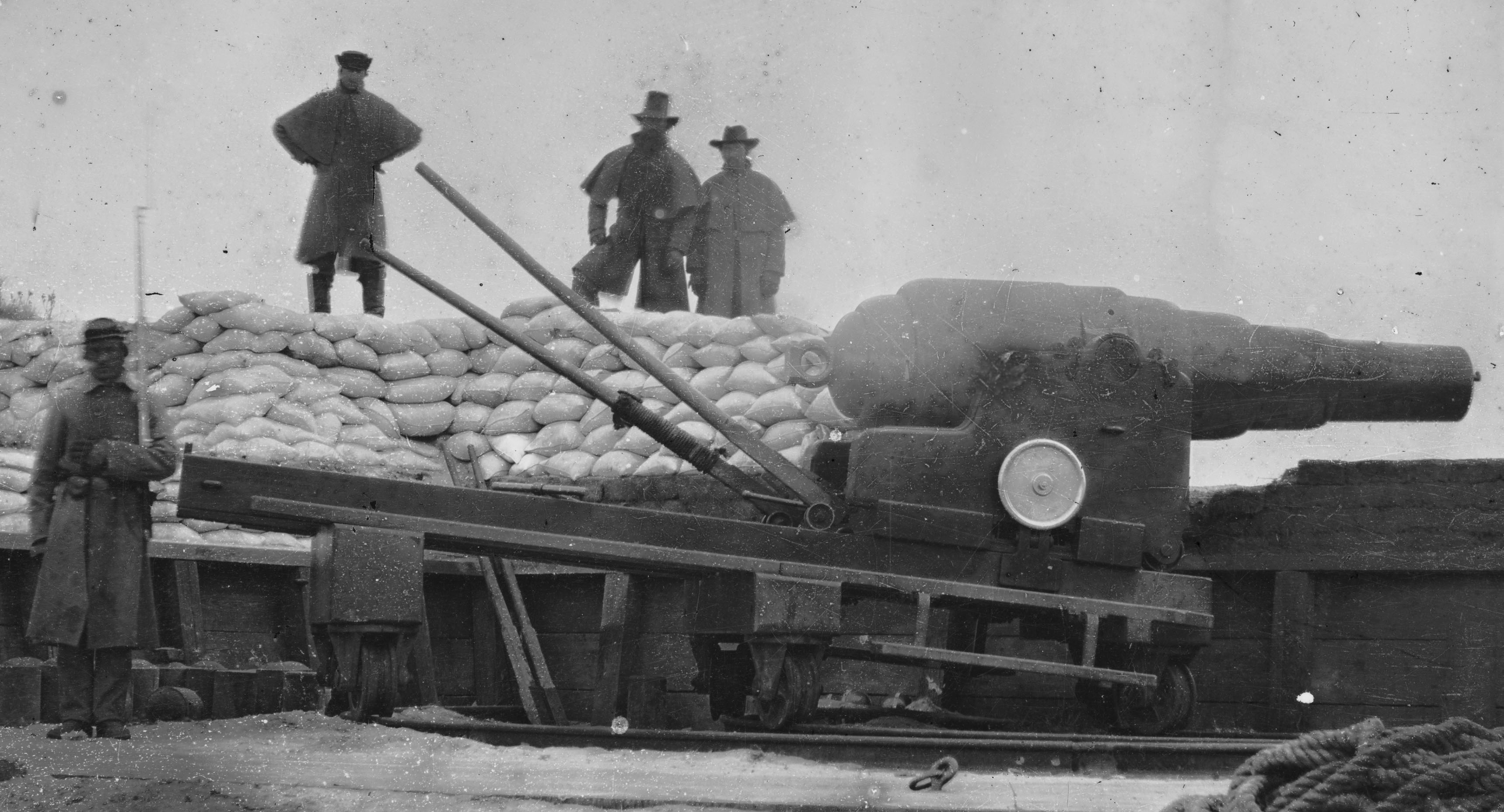 Fort Fisher, North Carolina. Interior view. English 8-inch Armstrong gun. This same photo also appears captioned as being used in the North China Campaign of 1860, Second Opium War.